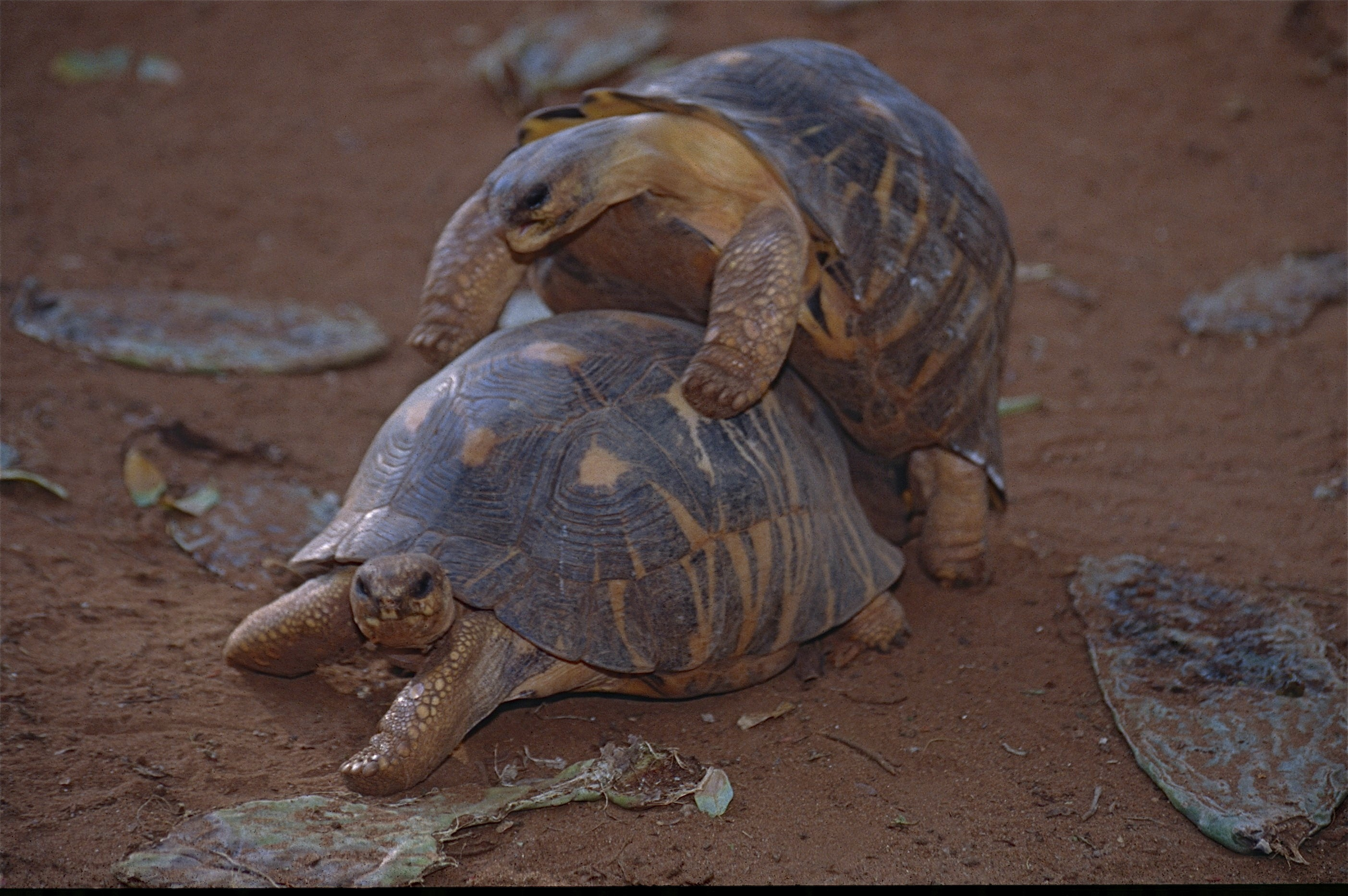 Réserve de Berenty, Amboasary Sud, MADAGASCAR Scanned Slide from 1998